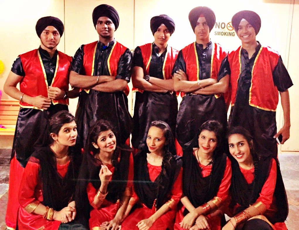 A picture of a Bhangra Group in Dubai, United Arab Emirates!! (United Bhangra)